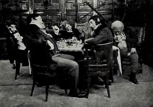 Still from the 1913 Vitagraph Studios film The Pickwick Papers